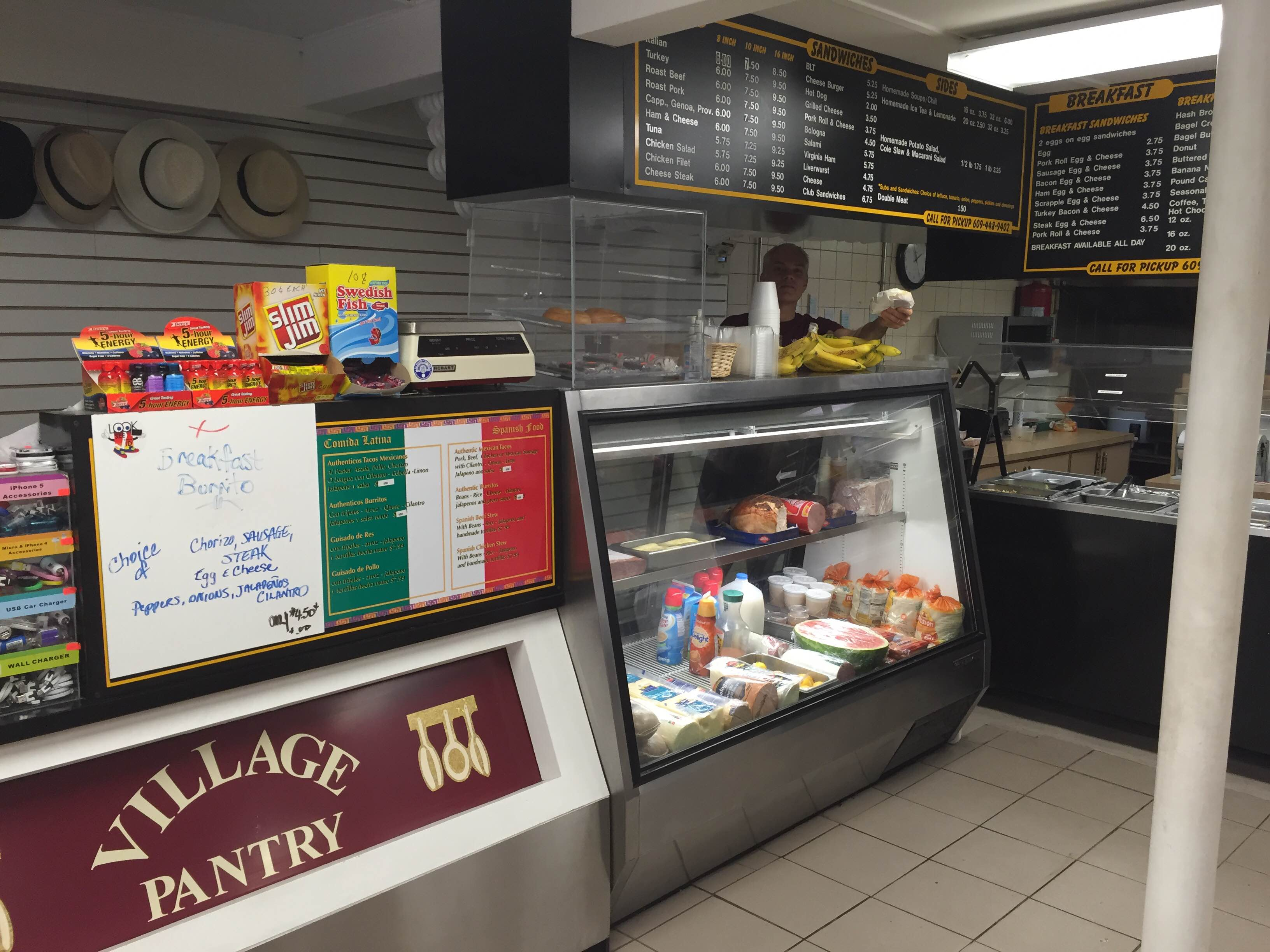 The image is one I took from my iPhone of a deli (that i frequent) in New Jersey. The image was taken with permission from the owner.